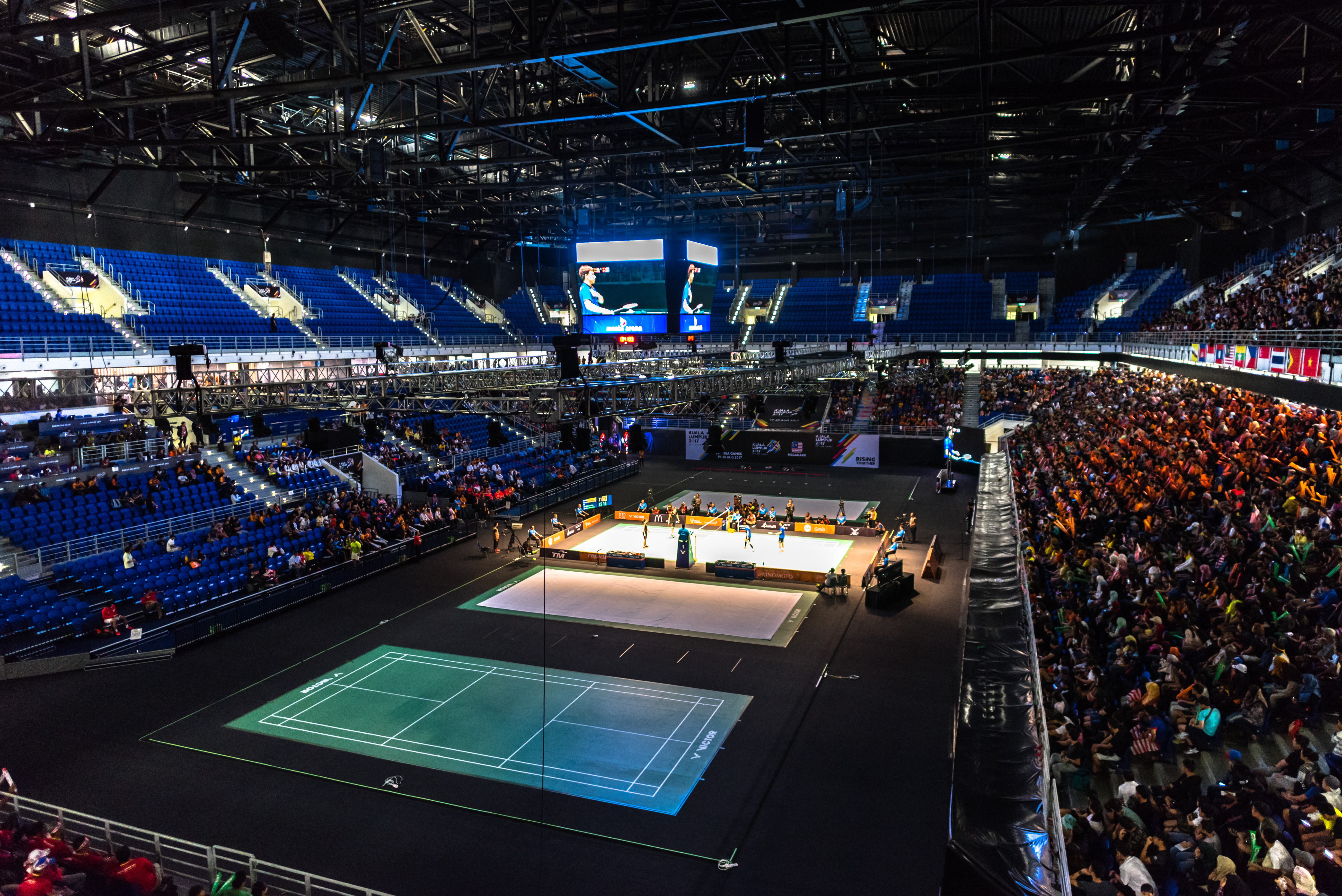 The Axiata Arena, venue of badminton events of the 2017 Southeast Asian Games.